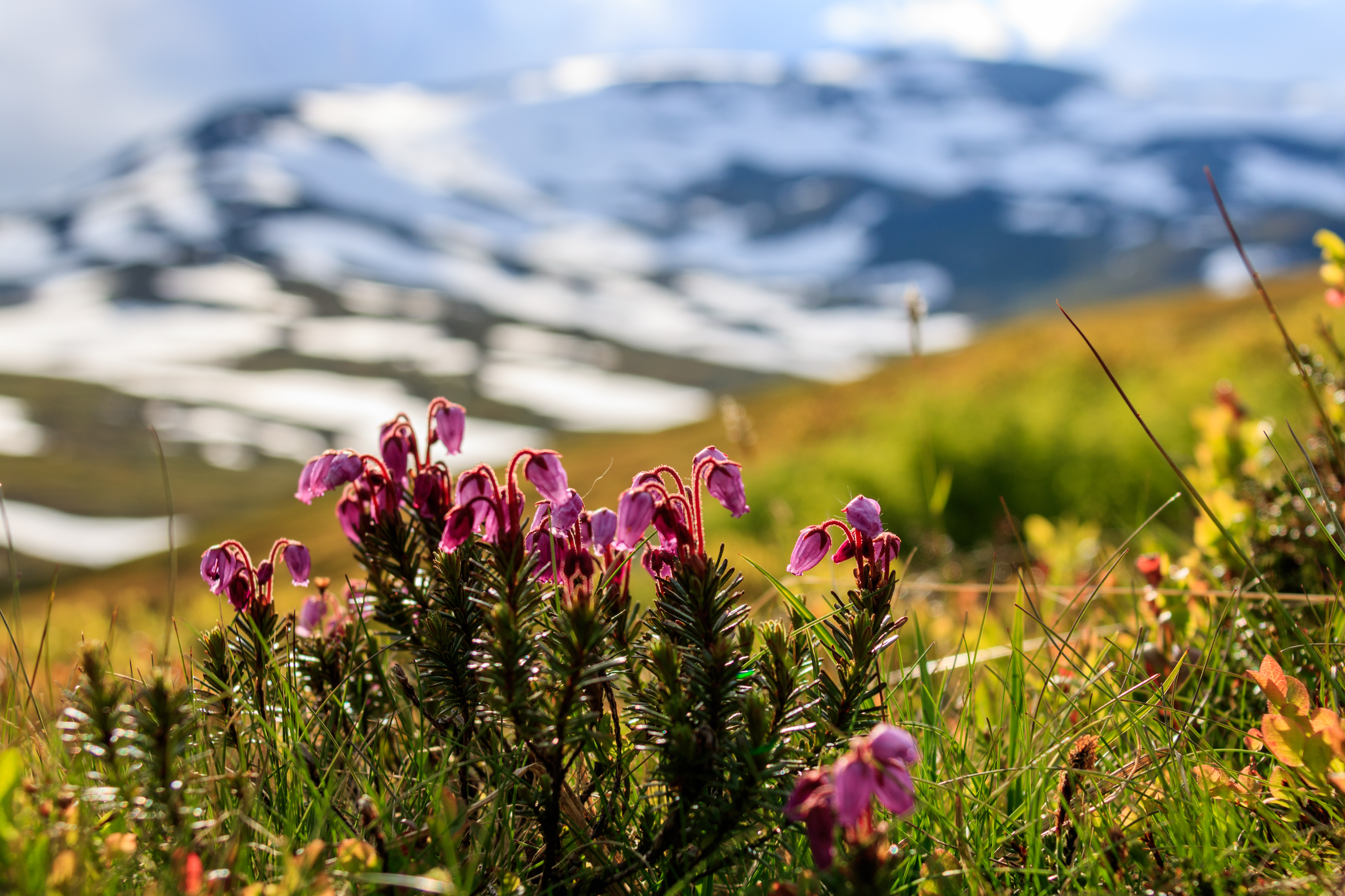 Phyllodoce caerulea in Skåarnja nature reserve